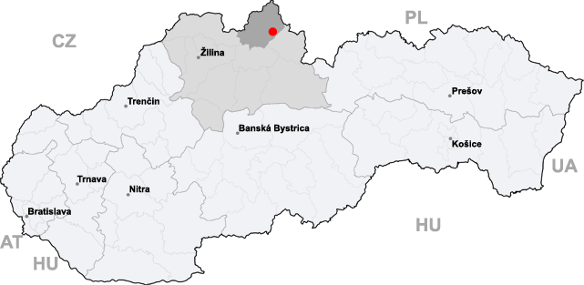 map of Slovakia, city of Námestovo highlighted